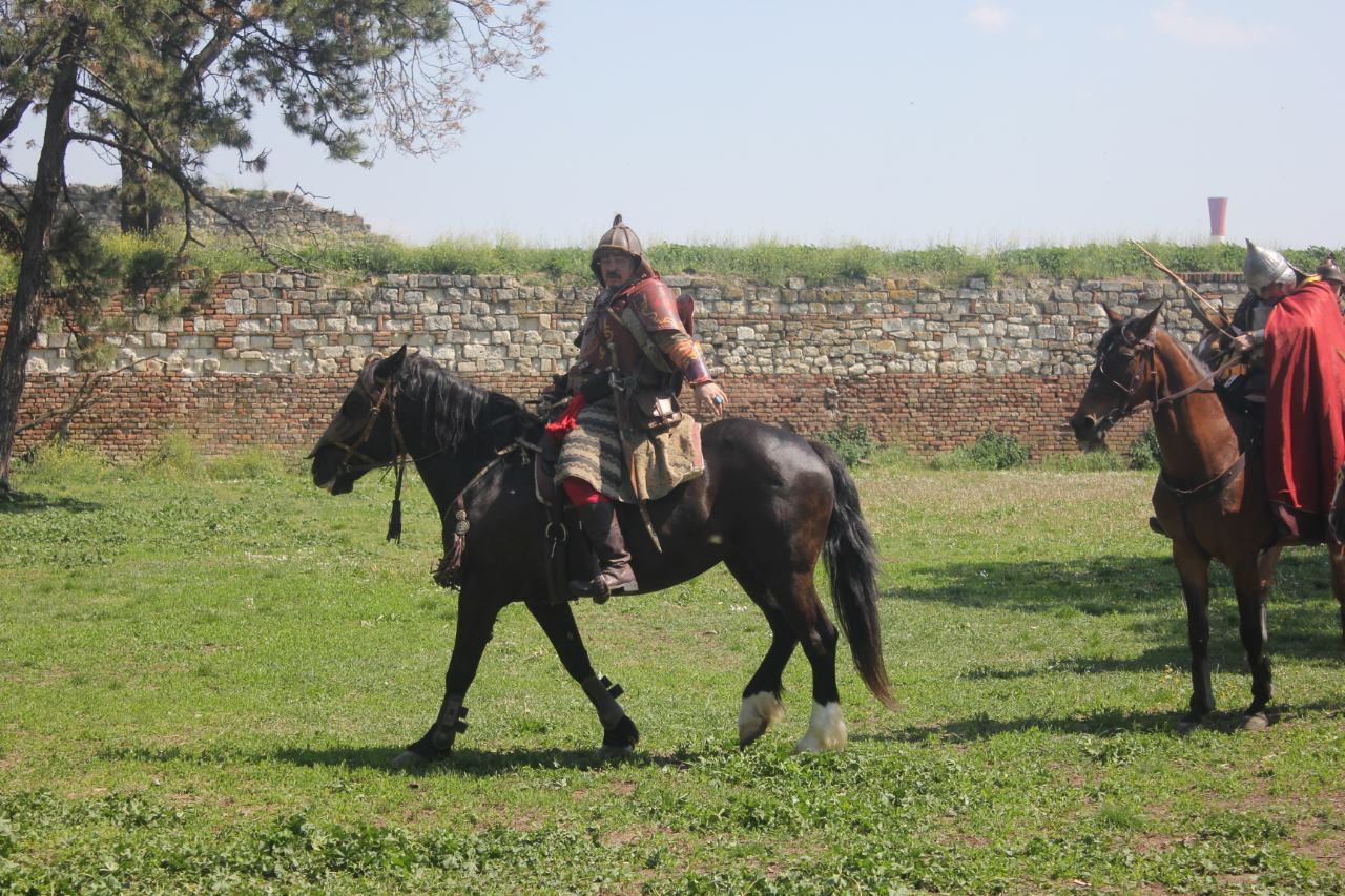 Re-enactor of Mongolian rider at Kalemegdan fortress